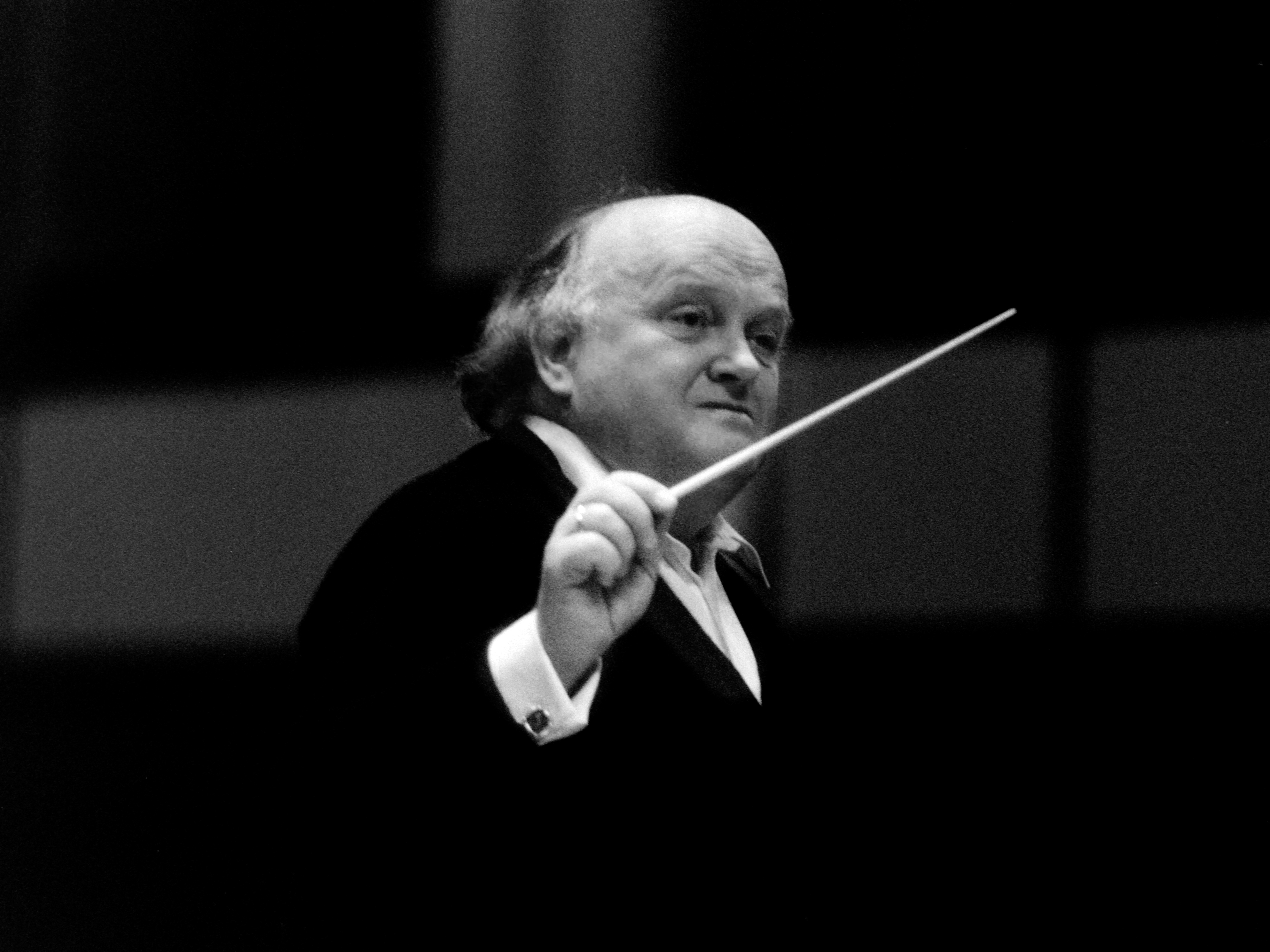 The German conductor Horst Stein rehearsing with the Bamberg Symphony Orchestra